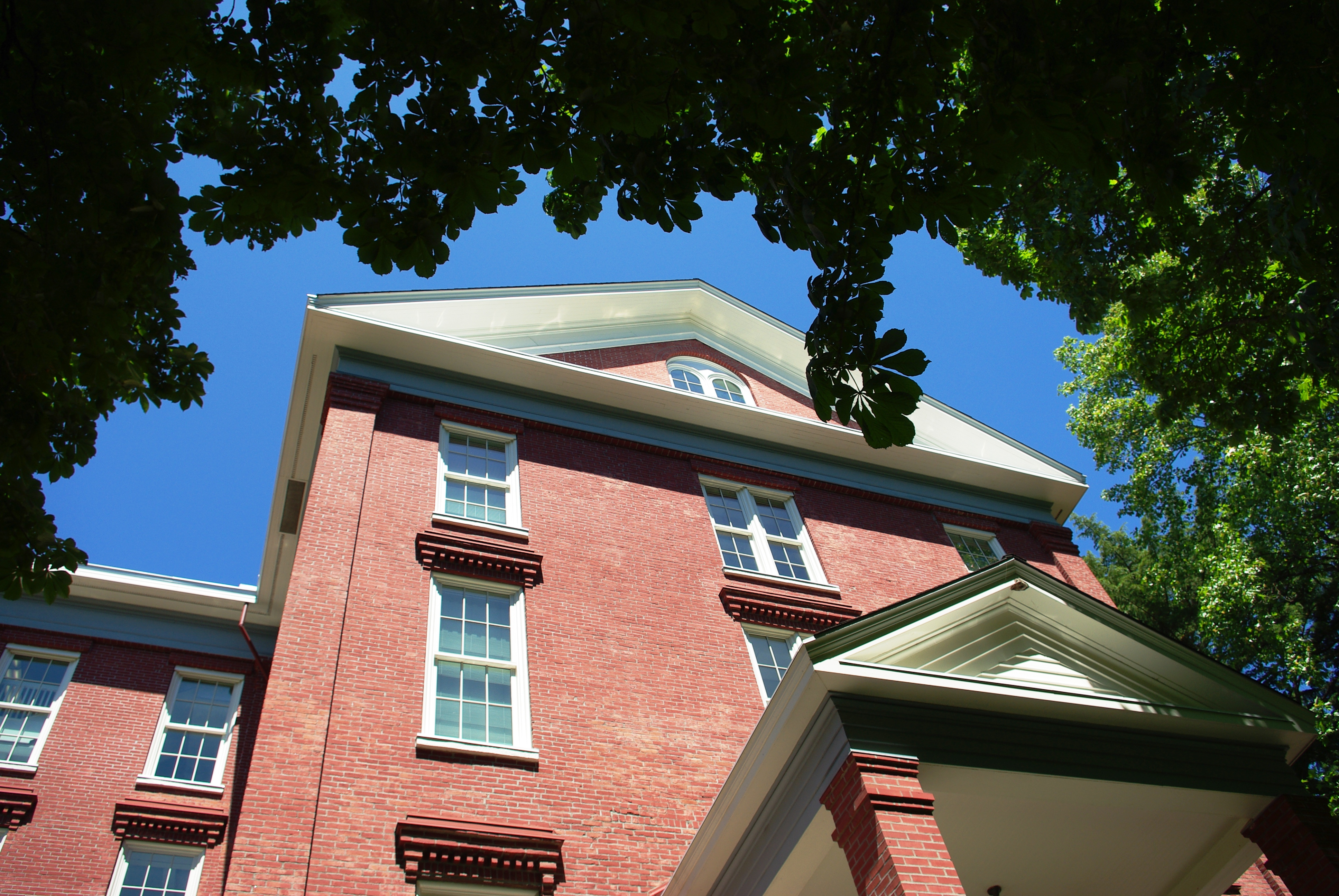 West entrance